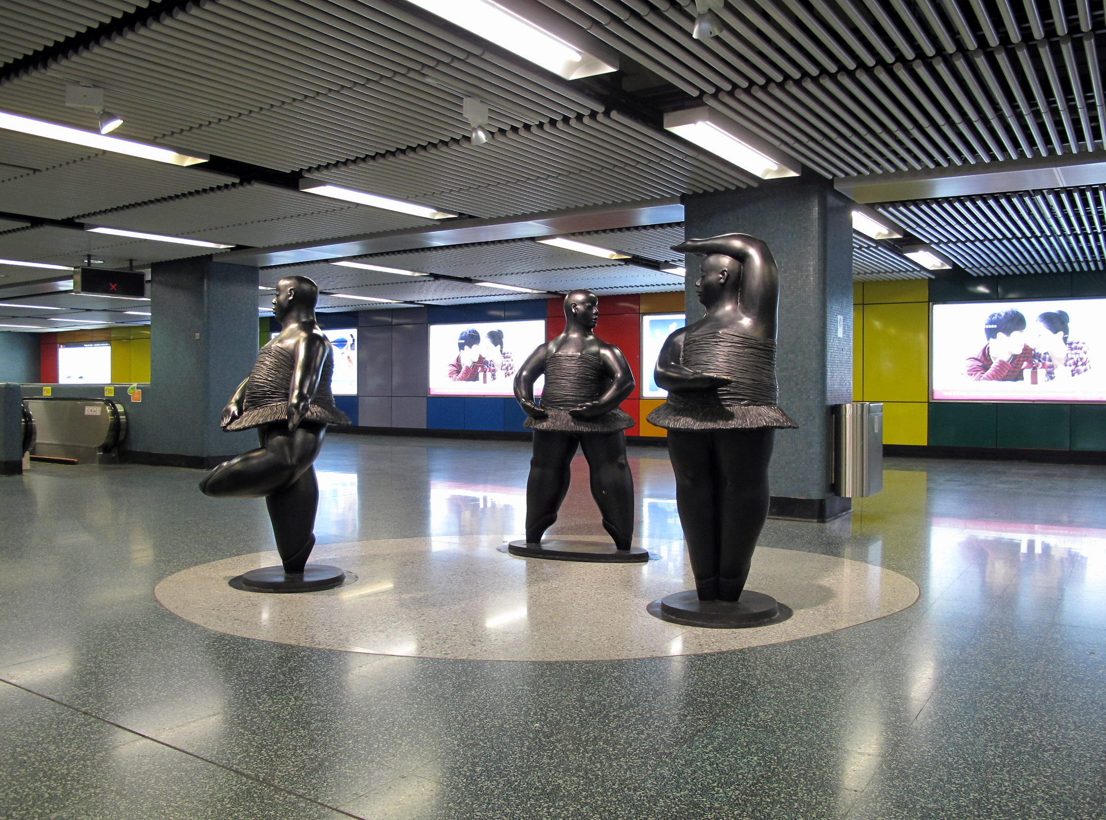 Choi Hung Station Sculpture